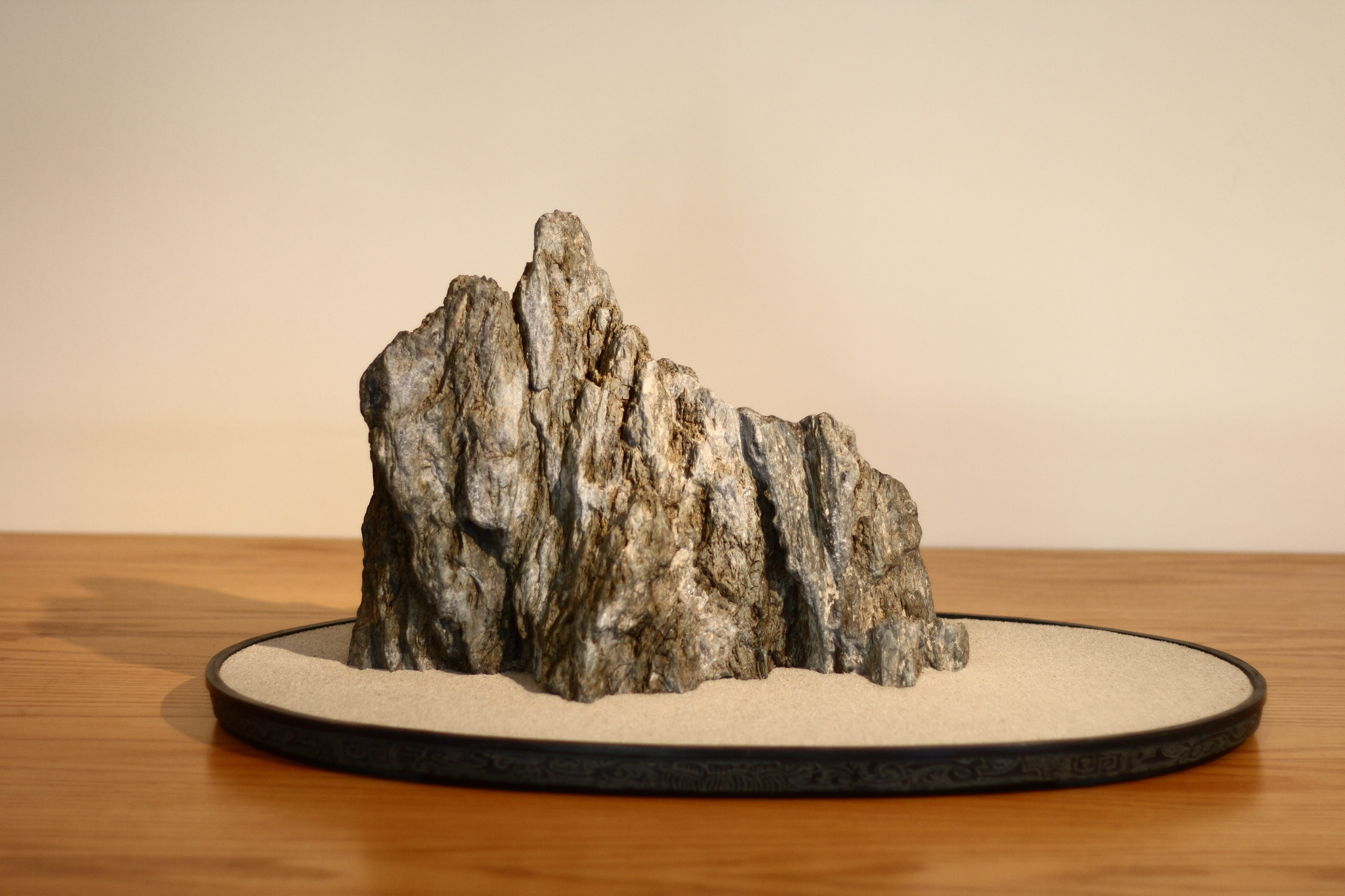 "Cape San Martin", a Coastal Headland Stone collected in the Kern River in California, on display at the National Bonsai & Penjing Museum at the United States National Arboretum